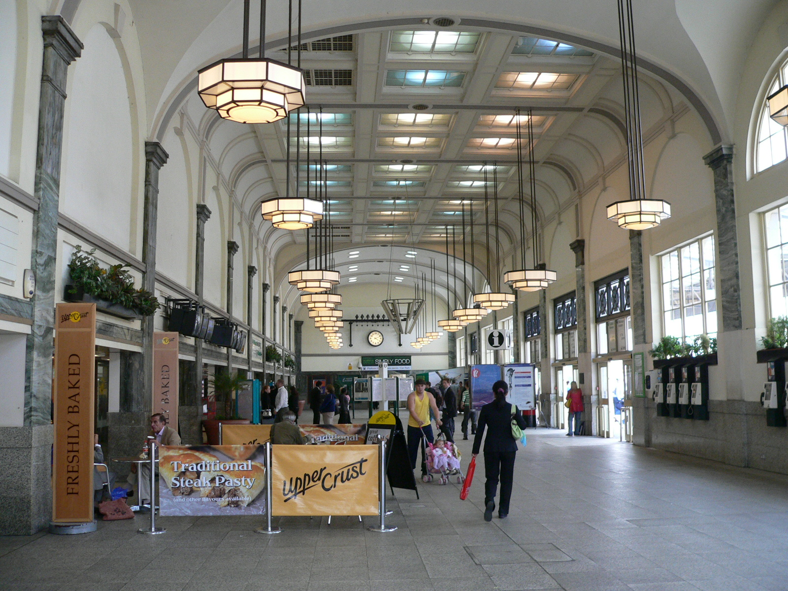 The main concourse at Cardiff Central railway station, looking from the eastern end. The trains are accessed via subways at this level to the left. Outside the main entrance to the right is Cardiff Central Square and Cardiff bus station. Less than two minutes walk away is the Millennium Stadium.